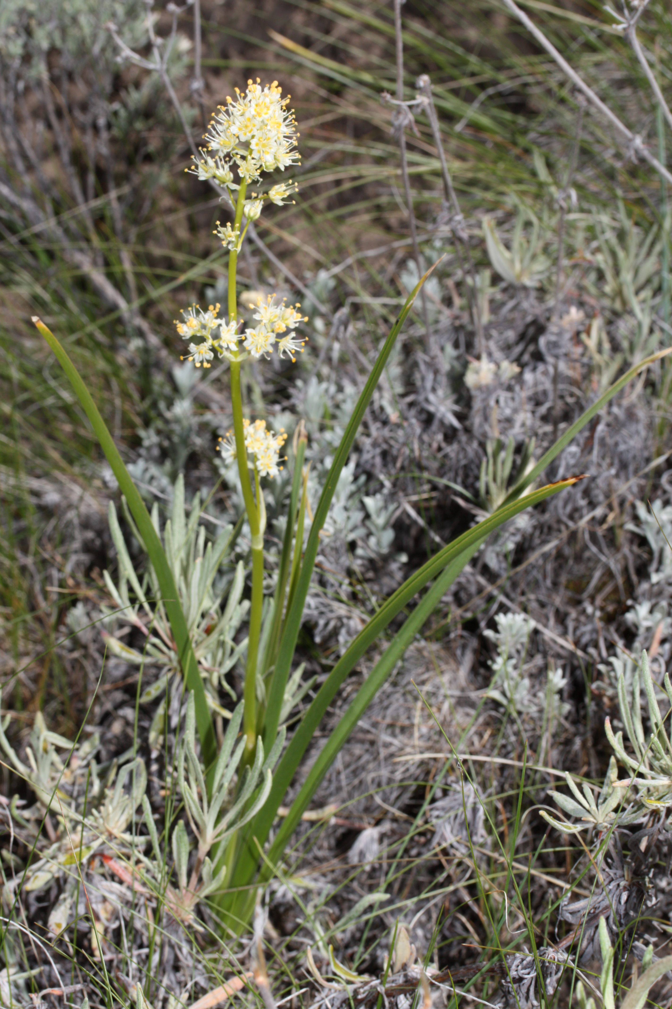 Foothill Death Camas, Panicled Death Camas, Sand Corn